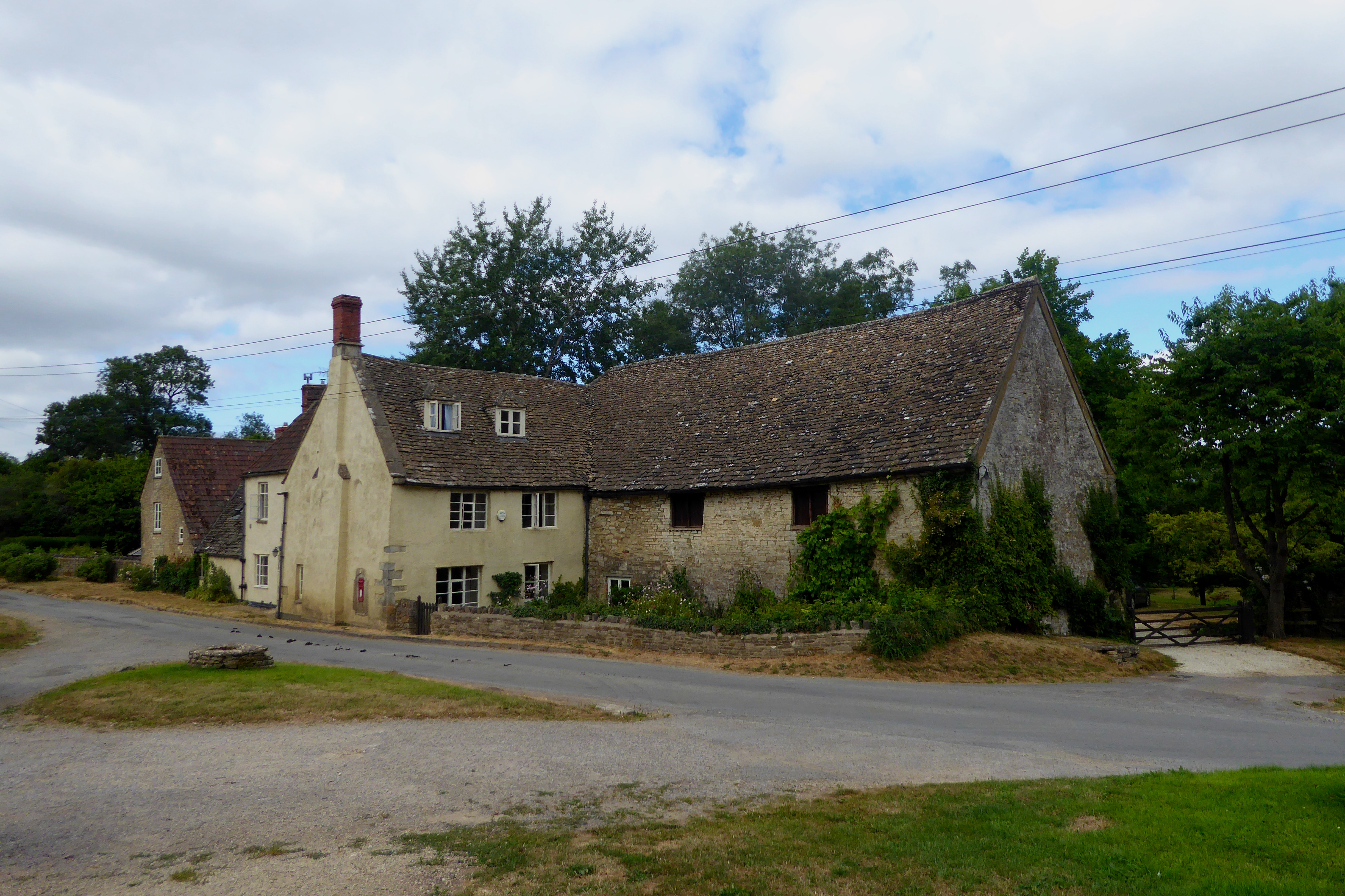 A house in the centre of Hawkesbury, Gloucestershire, as seen from near the Cotswolds Way route. To the left of the image is a small well.